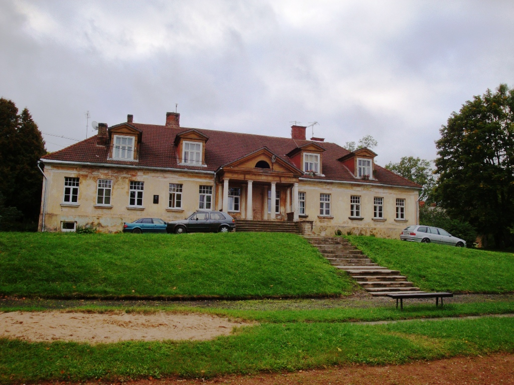 Drobbusch manorLatviešu: Drabešu muižas pils